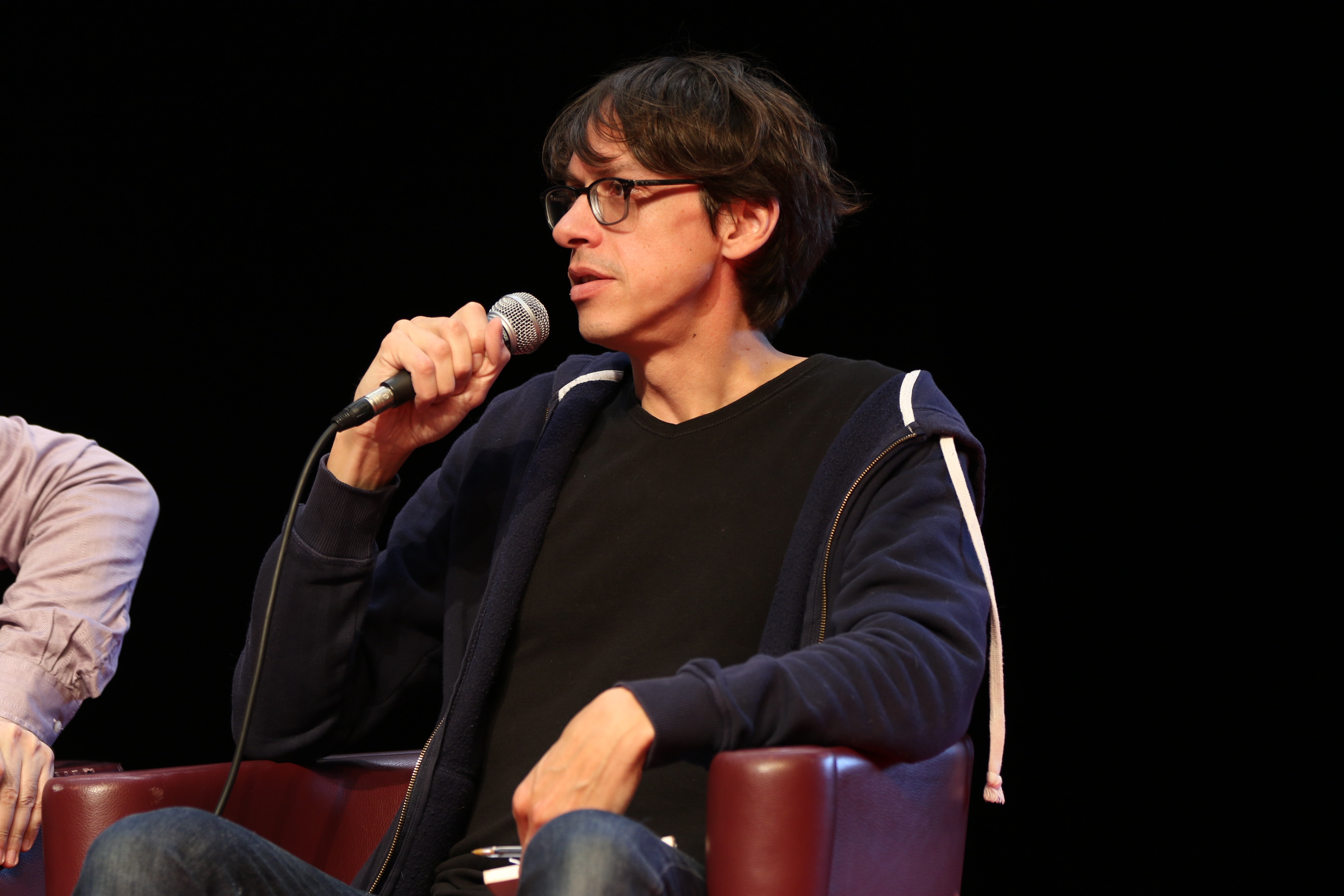 photograph taken at the 2015 edition of the "Utopiales" of Nantes.